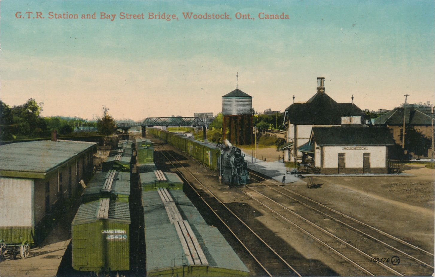 Grand Trunk Railway, Woodstock, Ontario Publisher: Valentine & Sons, ca. 1913